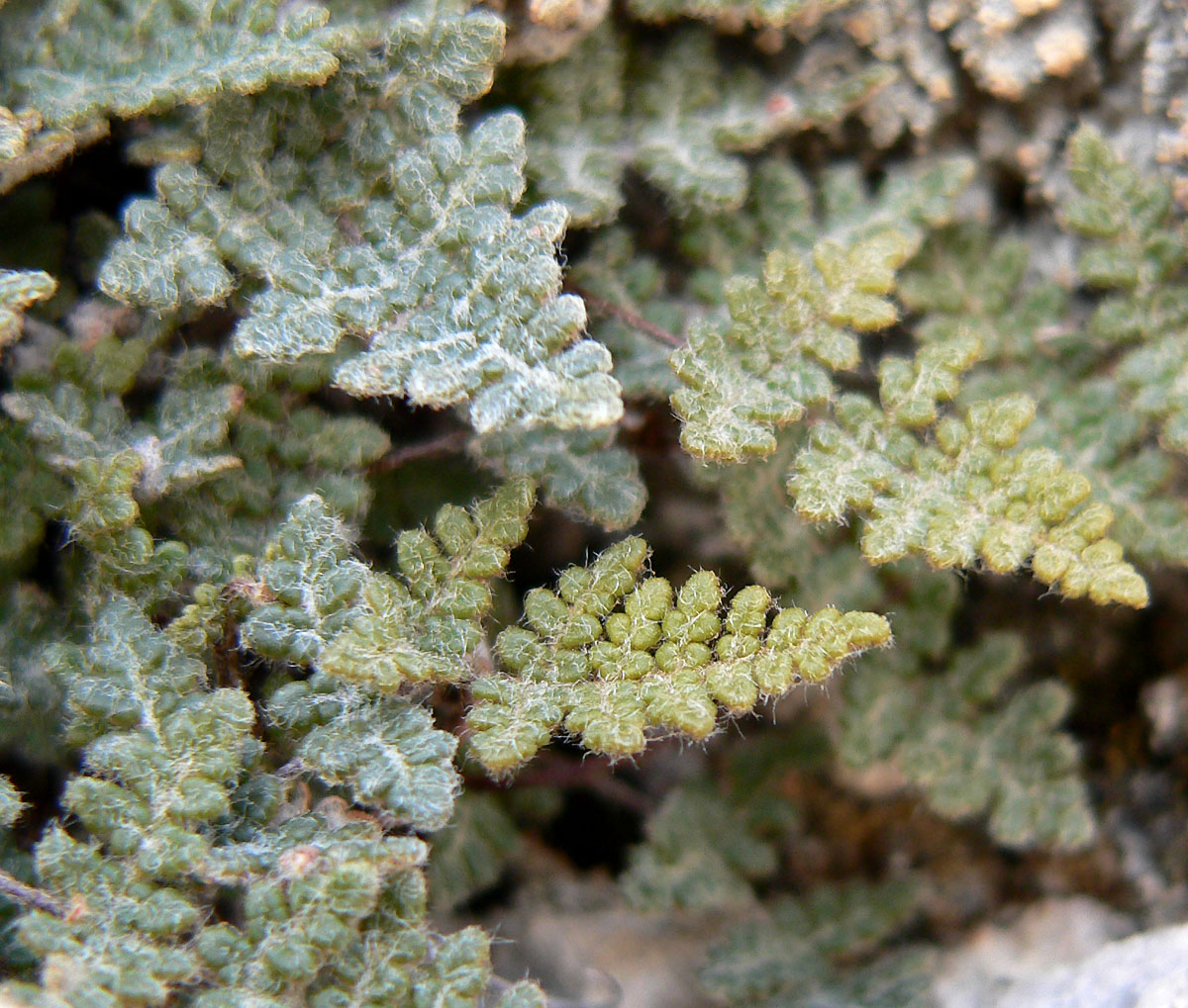 Cheilanthes feei on southern slope of the ridge just west of Turtlehead Peak, Red Rock Canyon, southern Nevada